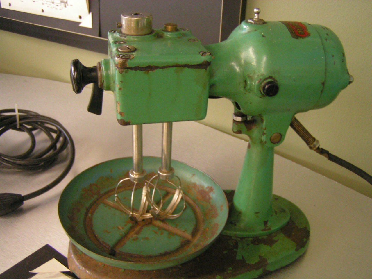 This is an oldie too